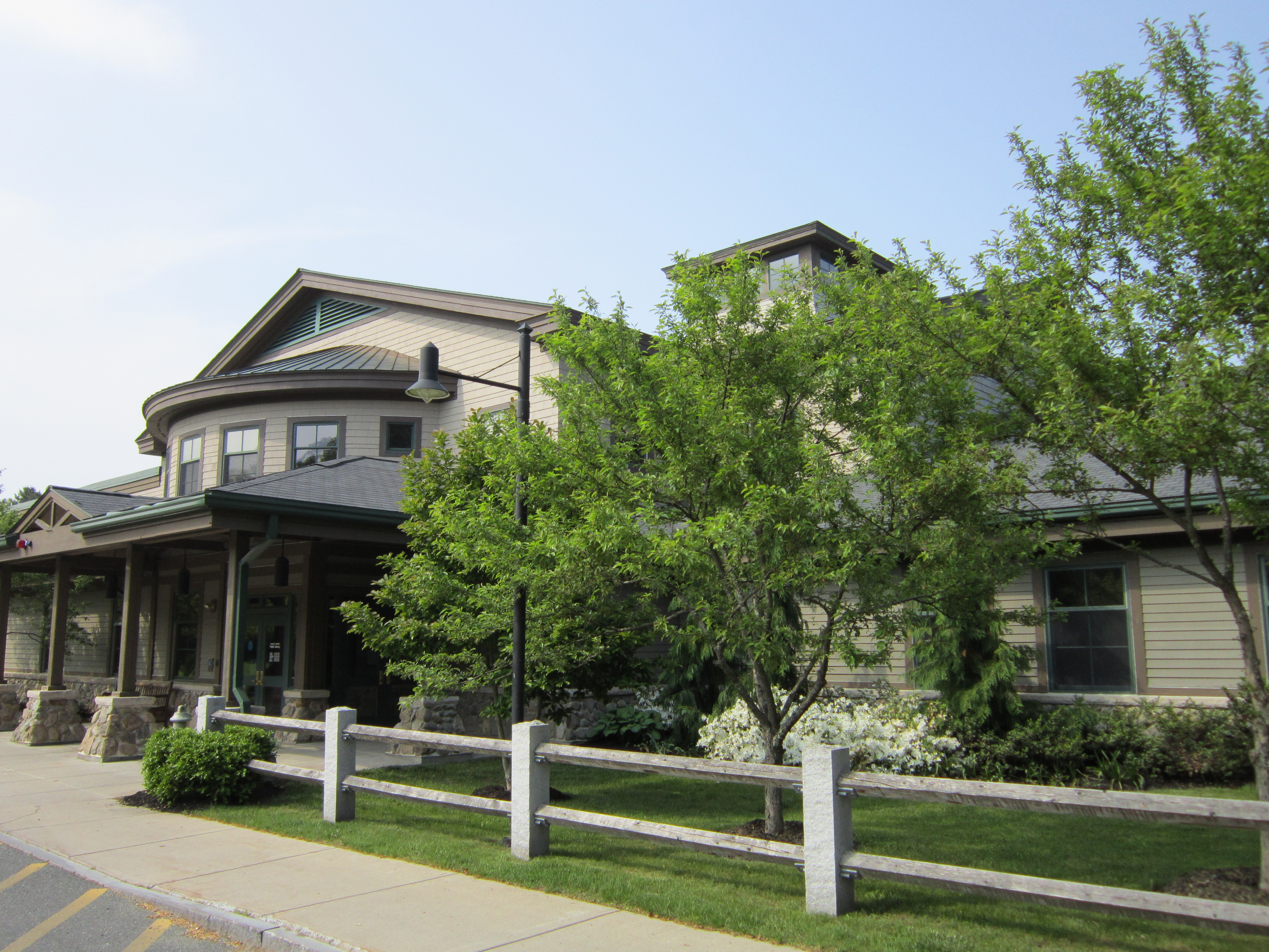 Hamilton-Wenham Public Library South Hamilton, Massachusetts